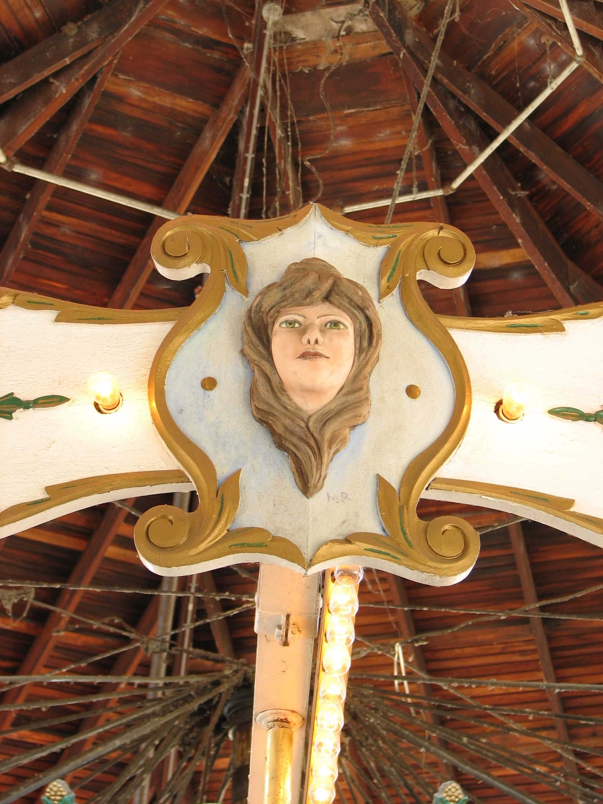 The Herschell–Spillman Noah's Ark Carousel at Oaks Amusement Park in Portland, Oregon, United States.